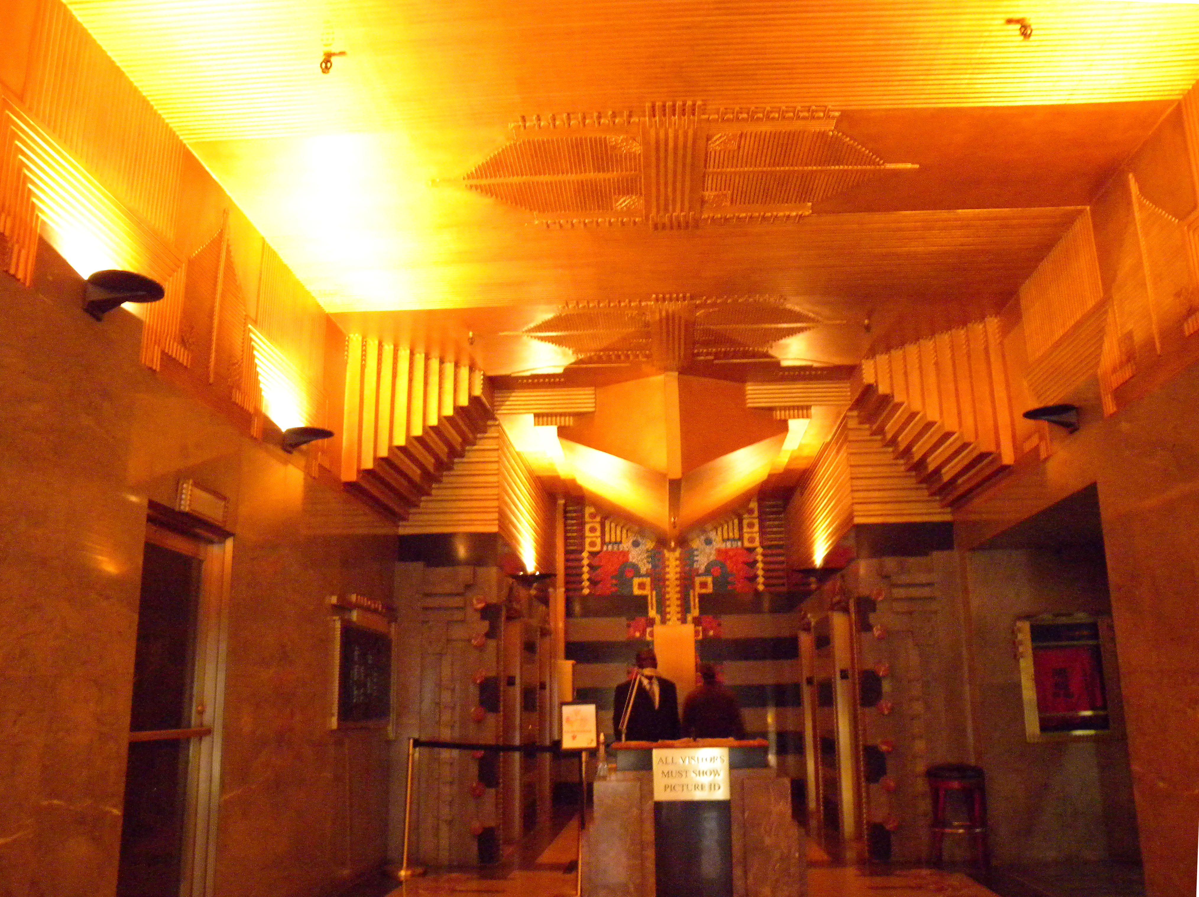 Looking east into lobby of Film Center Building.